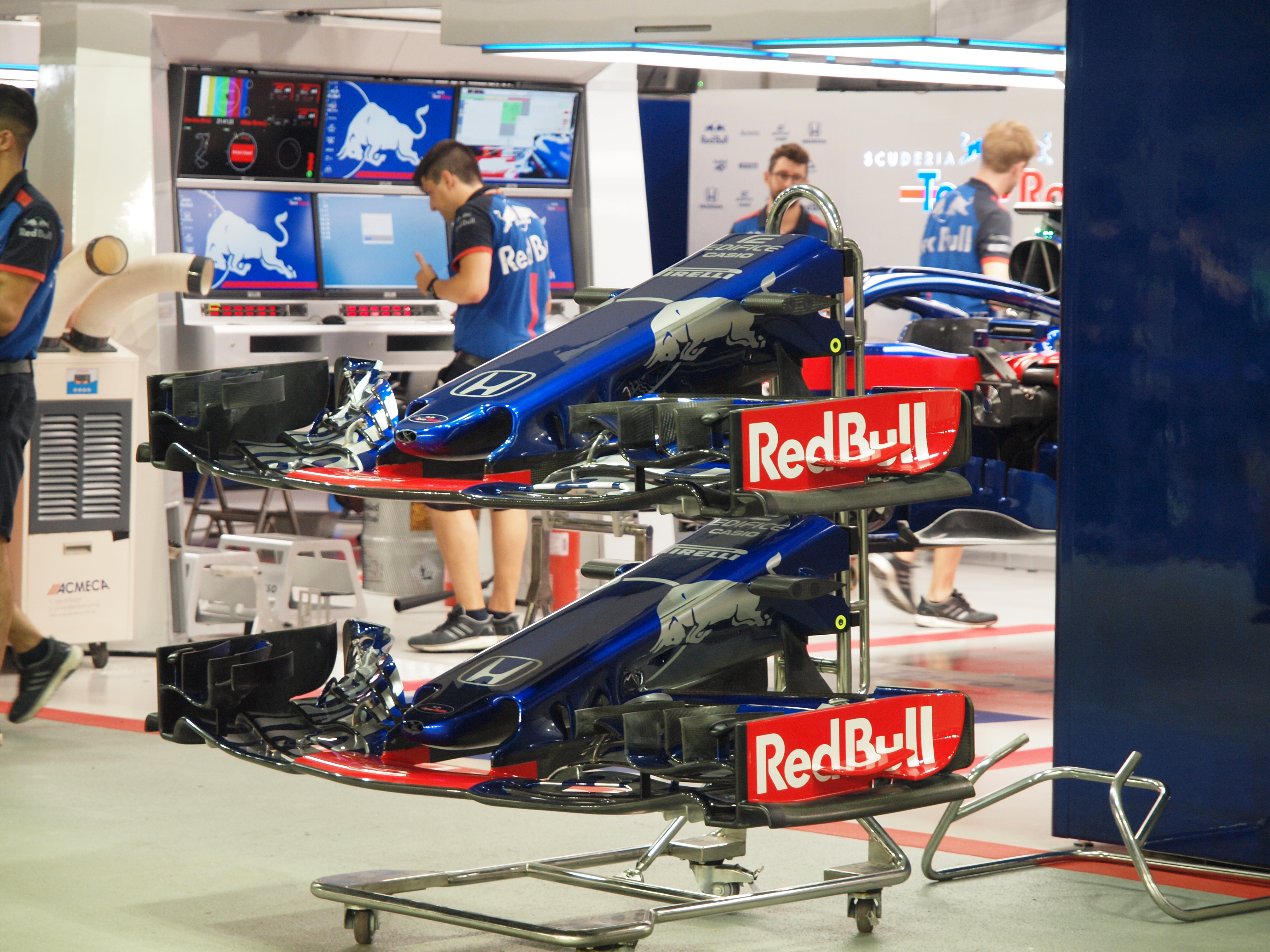 Scuderia Toro Rosso Spare Front Wings 2018 Singapore Grand Prix